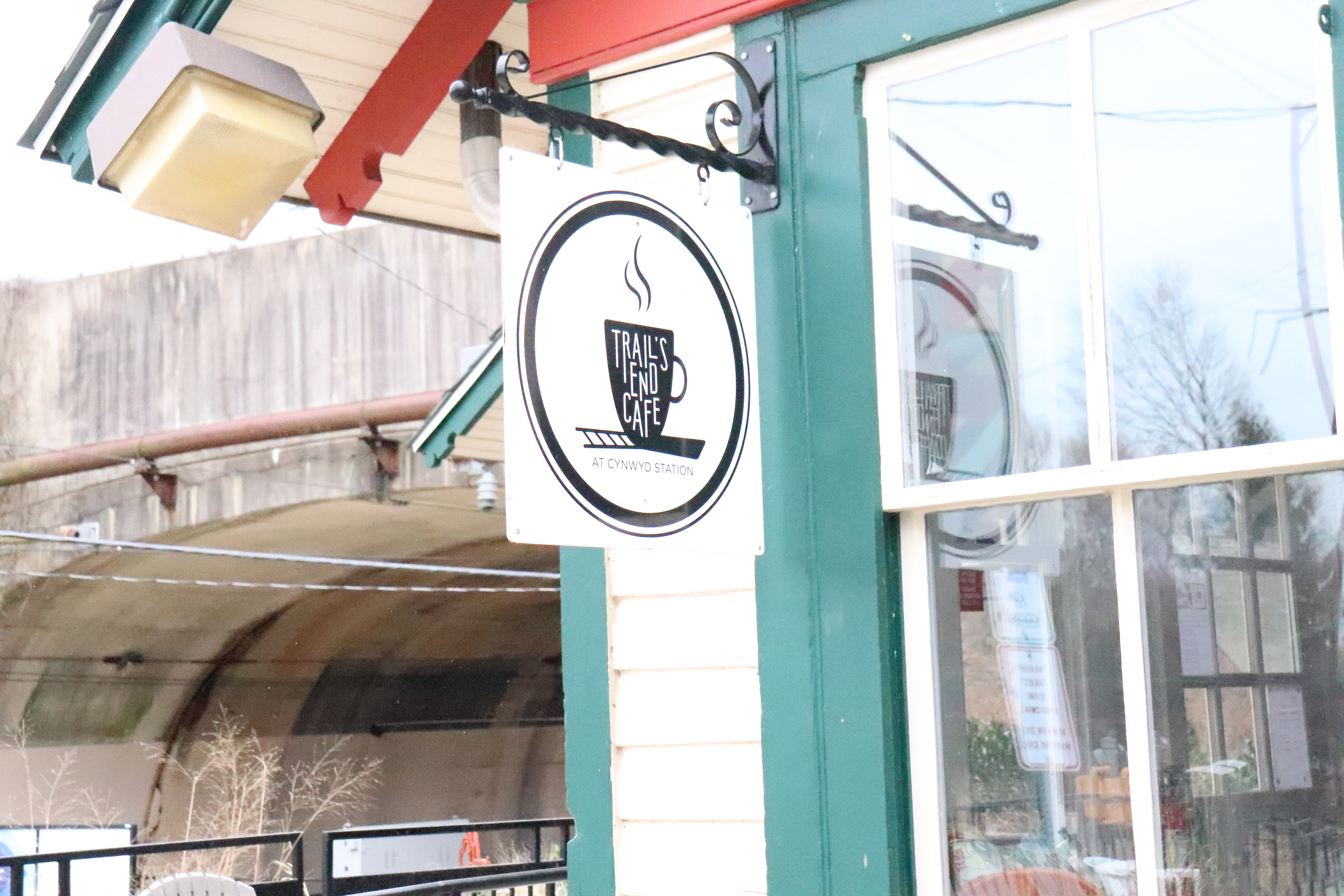 Cynwyd Line